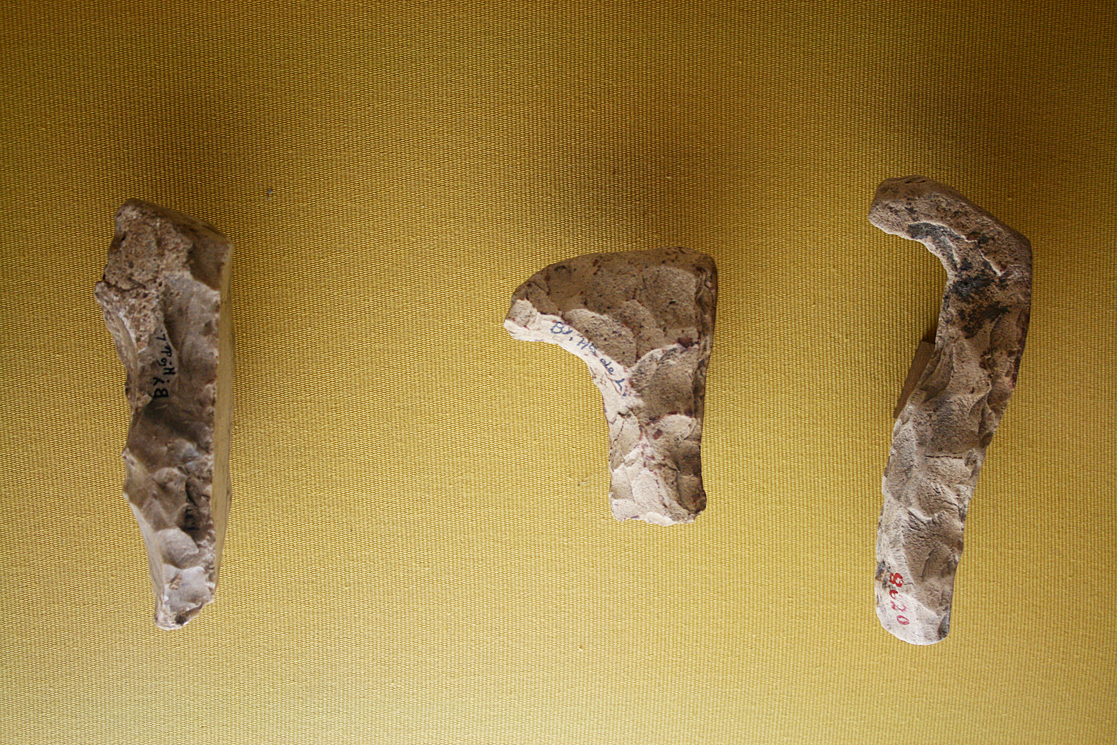 Flint picks Stage : Middle Paleolithic (to - 300 000 years from - 40 000 years Before the Current Era) Locality : Hauts de Lutz, Beaugency, Loiret, France